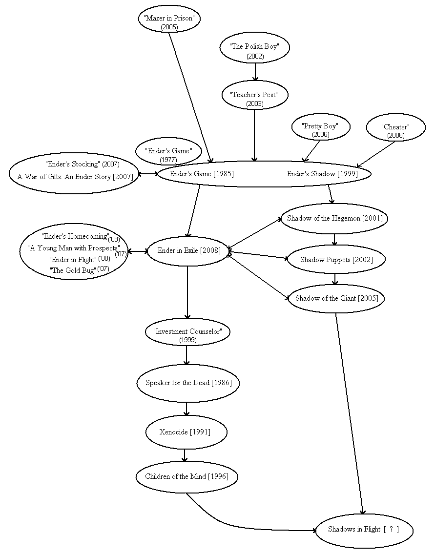 This is an updated version of The old Ender Timeline. It now includes all of the short stories and puts Ender in Exile in the right spot.